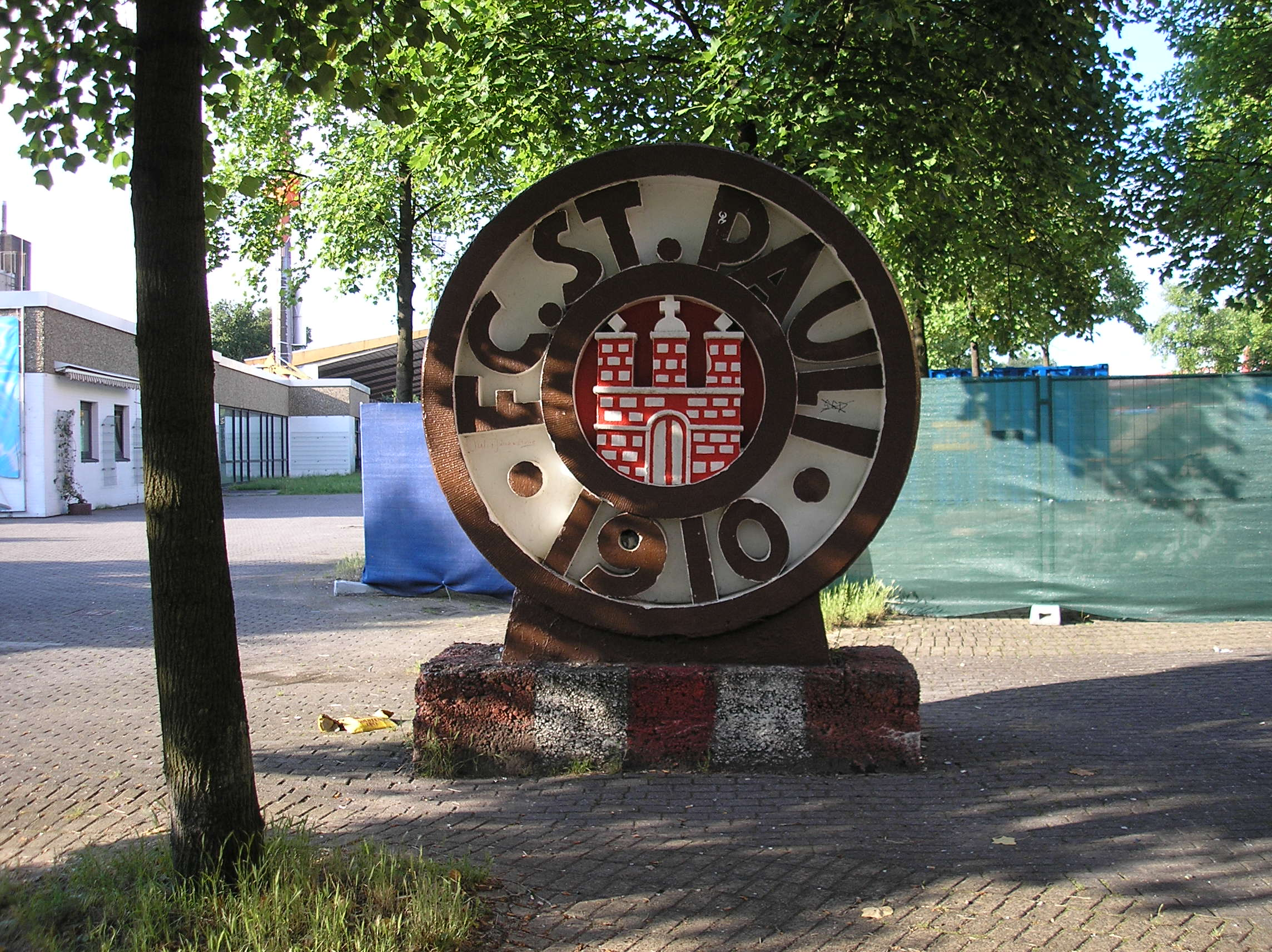 FC St. Pauli, Clubheim, Fanshop etc. Snapshots taken around the Millerntor Stadion, during overhaul/renovation summer 2007.